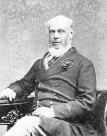 Sir William Owen Lanyon. Griqualand West.